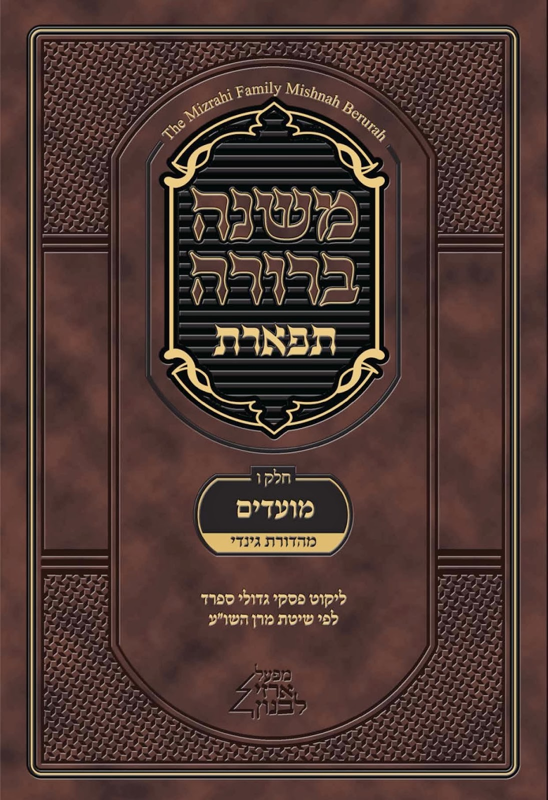 The halachic work Mishnah Berurah Tiferet, which is a project to incorporate Sephardic Piskei Halacha into the Mishna Berura.